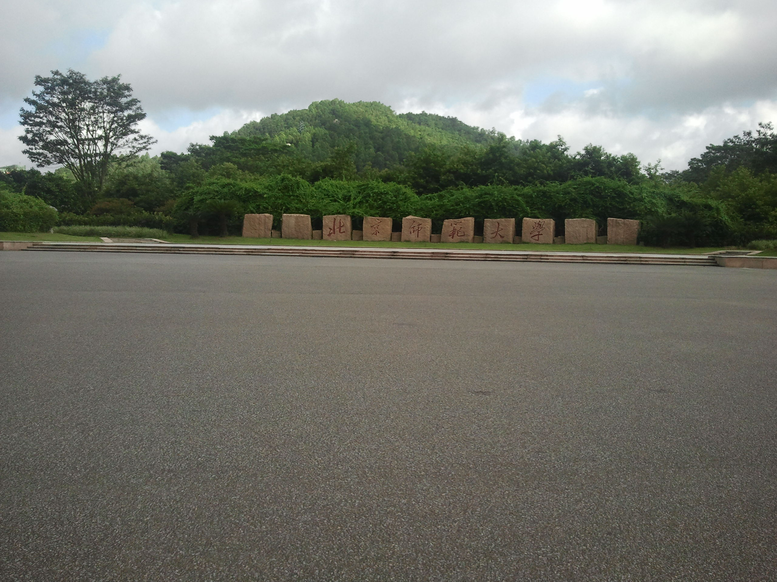 Stones of school name